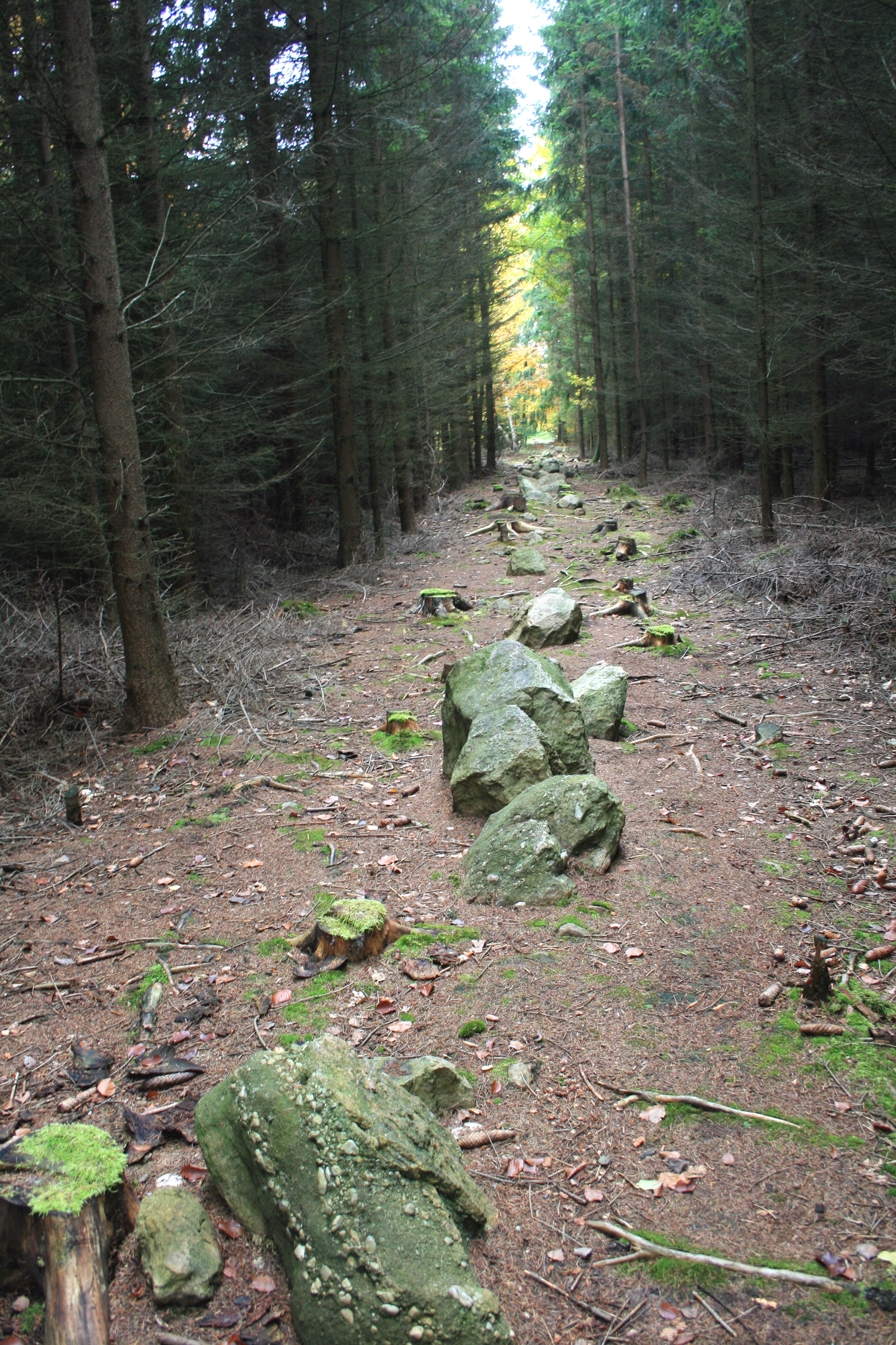 Stone rows near Kounov in central Bohemia, Czech Republic